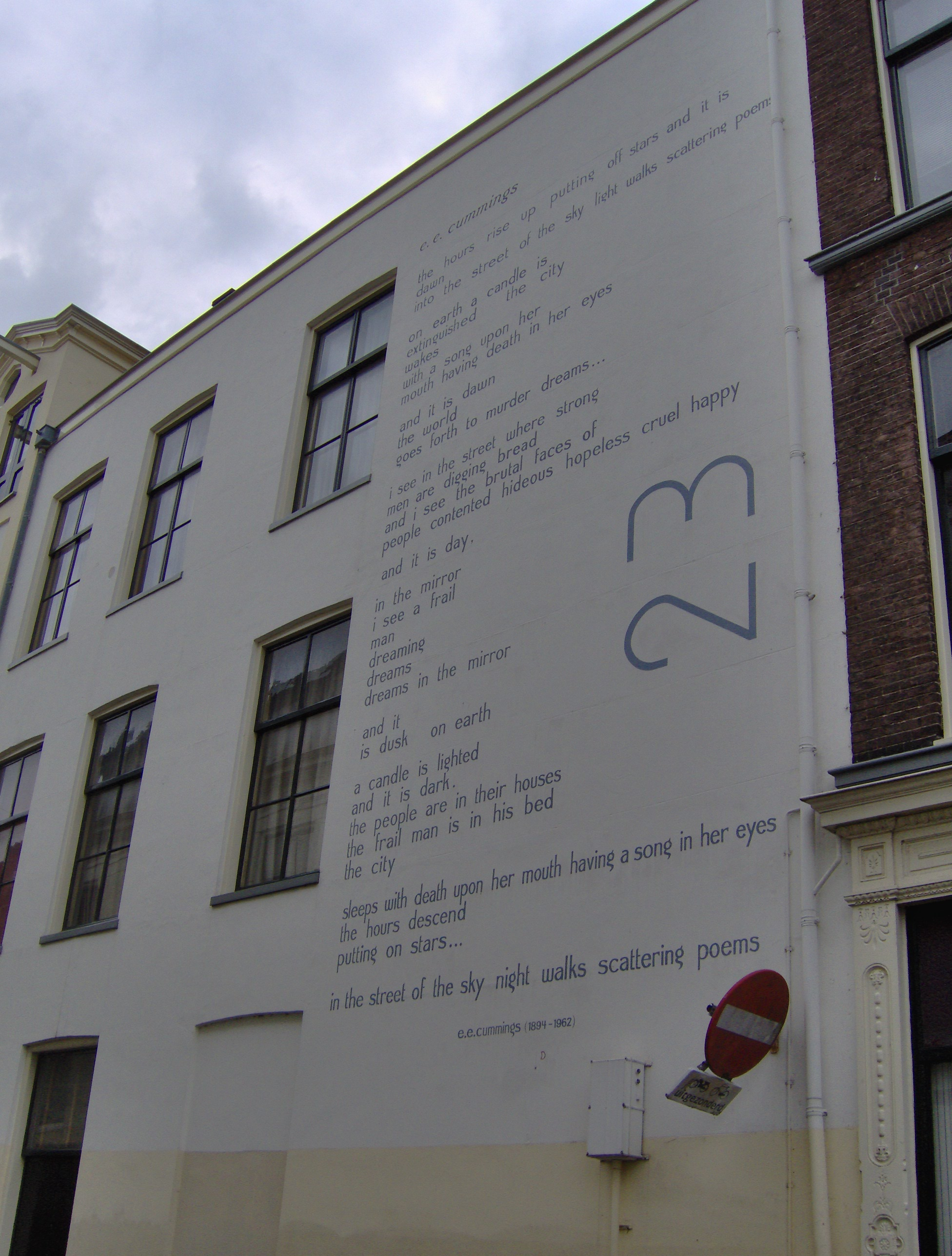 The poem The hours rise of the American poet Edward Estlin Cummings on a wall of the building at the Nieuwe Rijn 36 in Leiden, The Netherlands